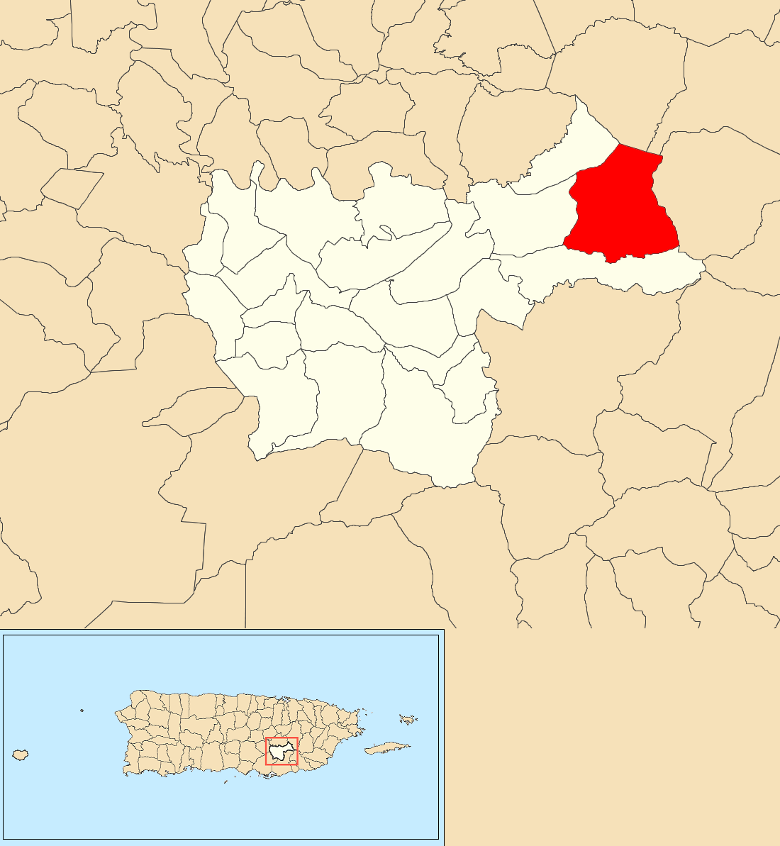 Guavate, Cayey, Puerto Rico locator map